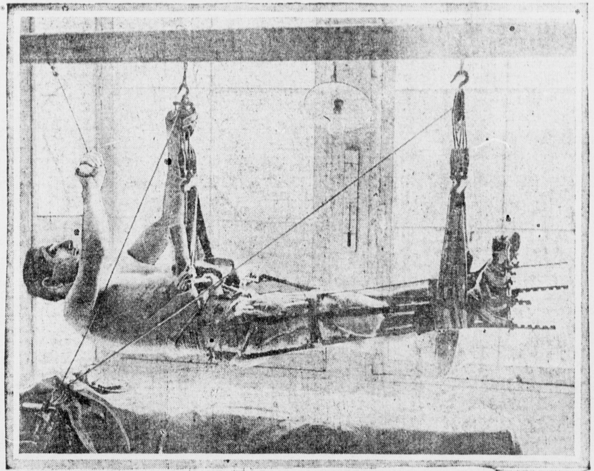 The above Illustrated apparatus was Invented by Dr. William Guelpa, the famous Paris physician, for the treatment of all fractures complicated with gangrene. Infection makes it necessary to keep the wound open so the break cannot be set in the ordinary way. The apparatus saves the patient excruciating pain caused by the slightest movement in position. A frame of steel rods, gripping the body and pulley attachments makes It possible to lift the patient from his cot and wash the wound freely with antiseptic, and perform other necessary daily work.